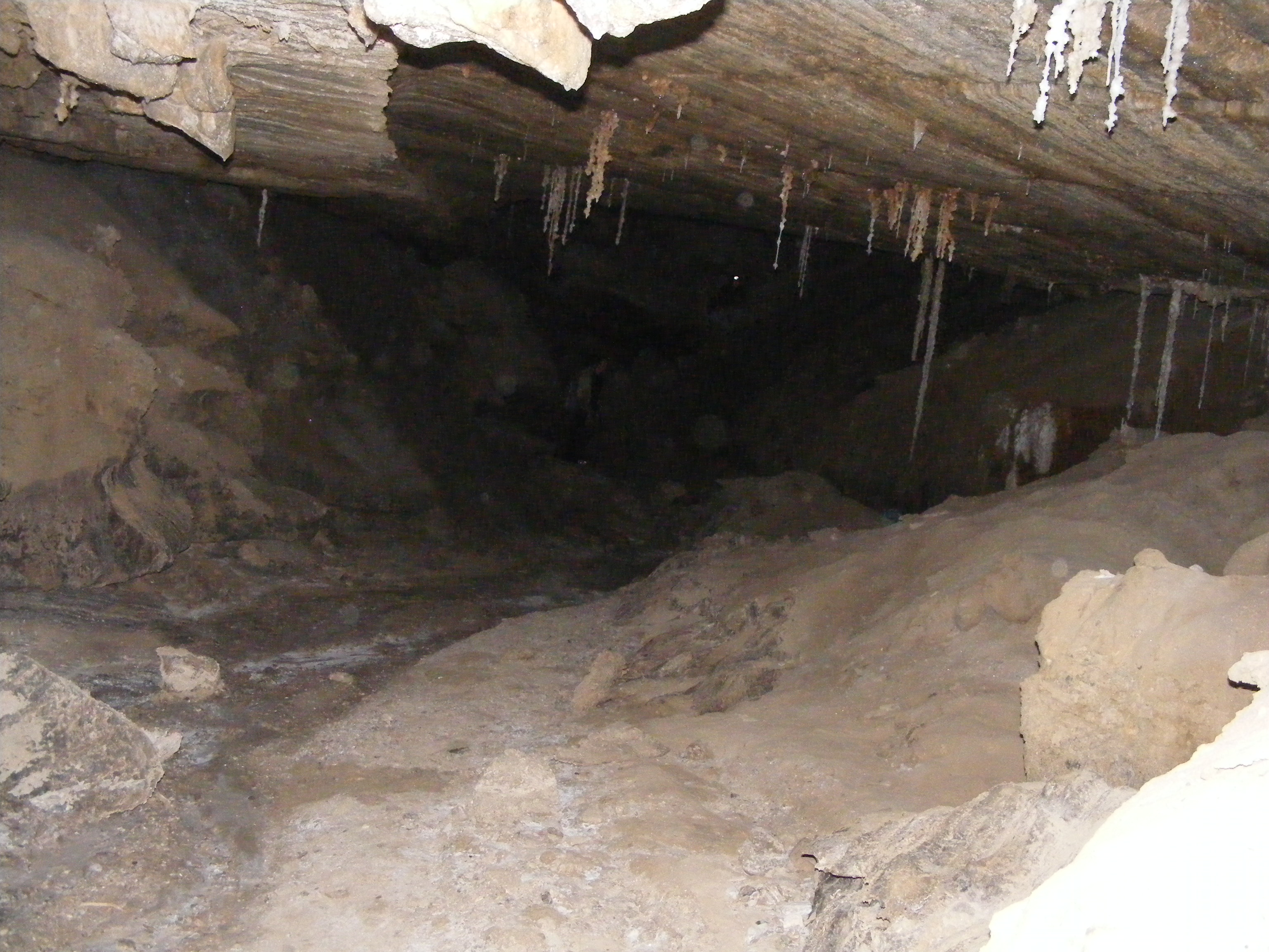 malcham cave inside